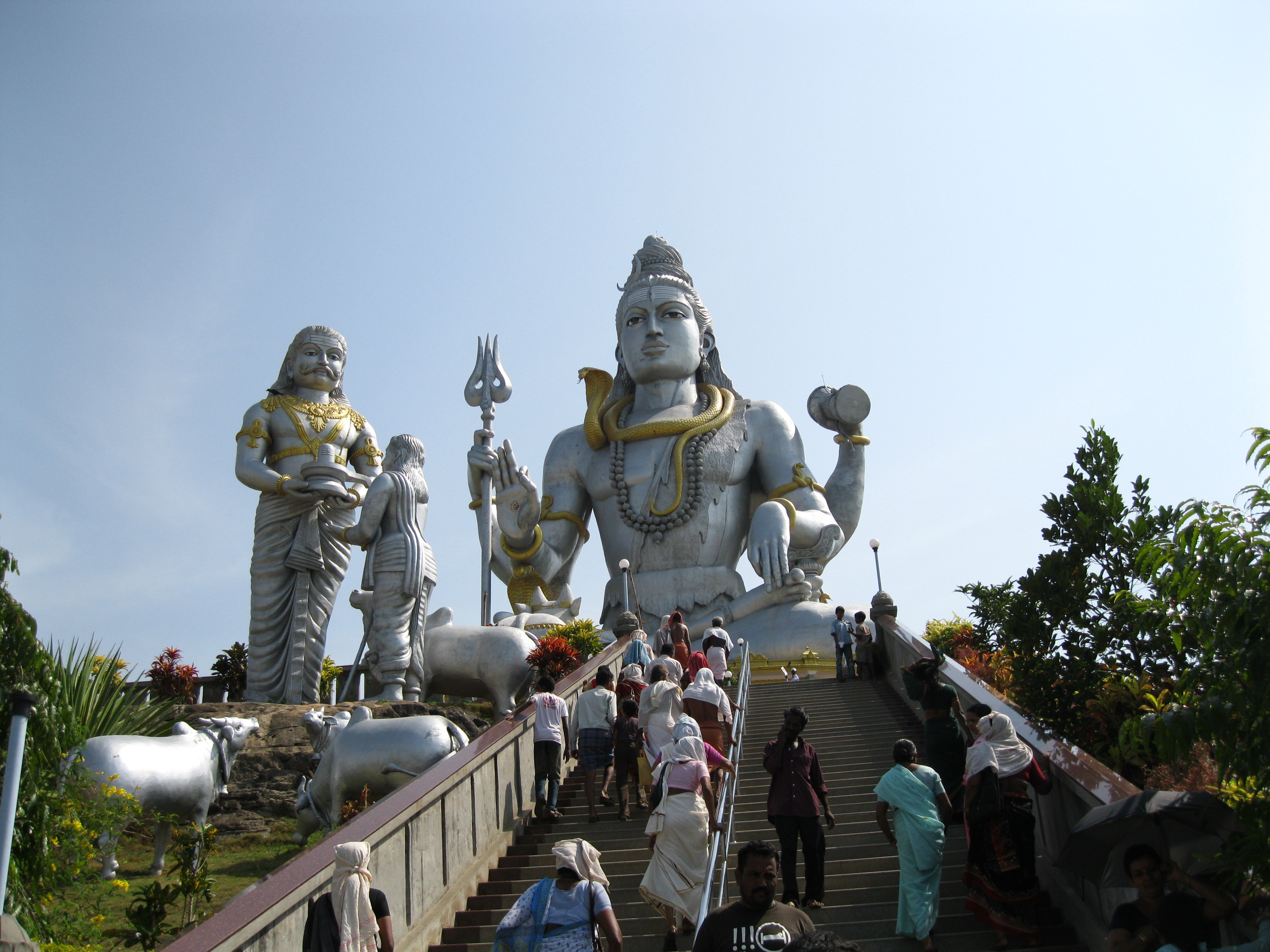 murudeswaram, karnataka